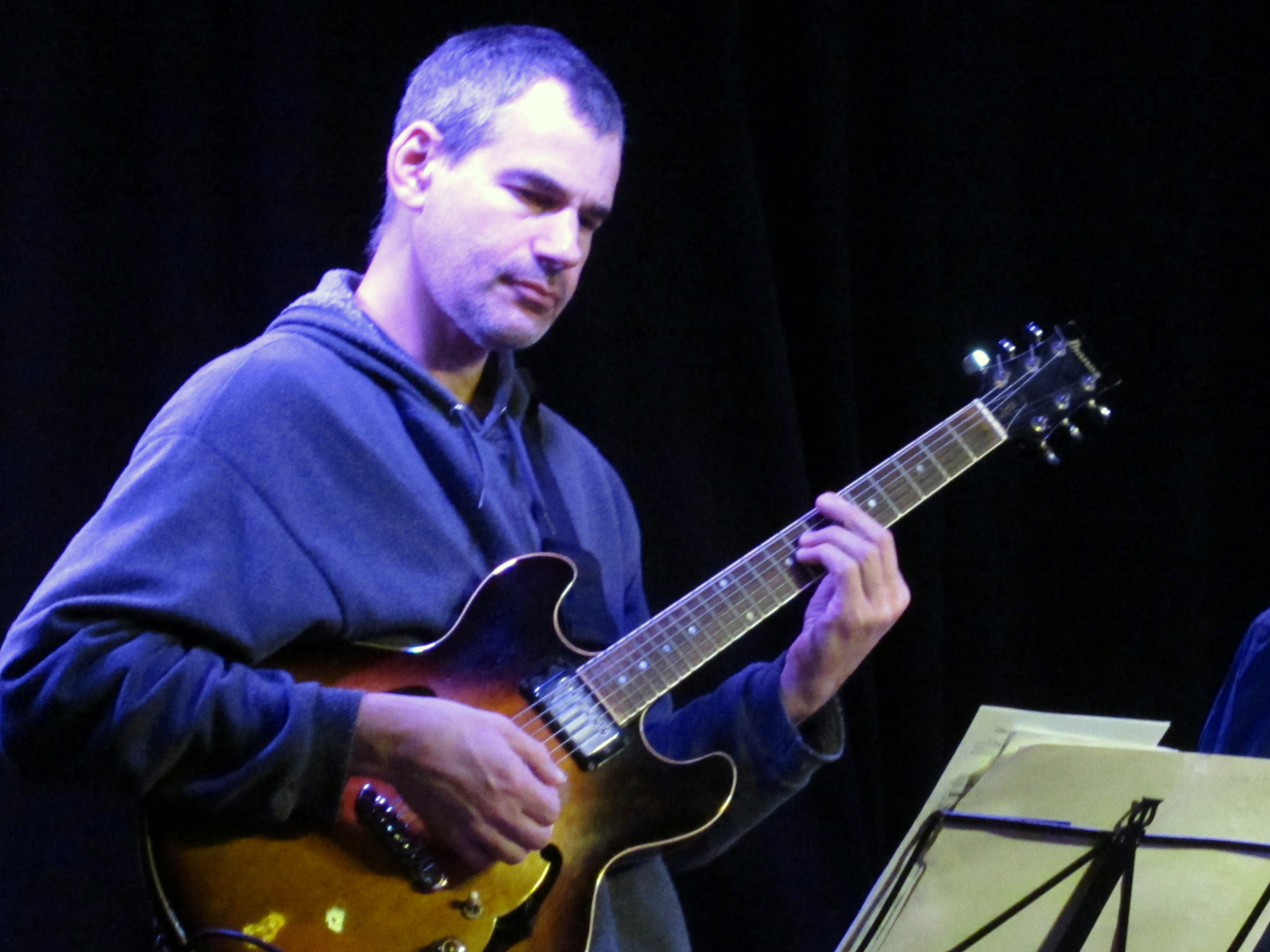 American jazz guitarist Ben Monder, live at Le Moulin à Jazz (France), 2011-11